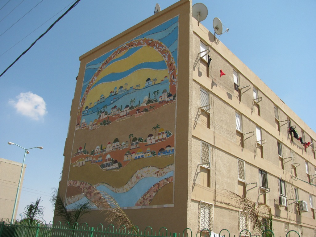 One of the houses decorated in Dimona